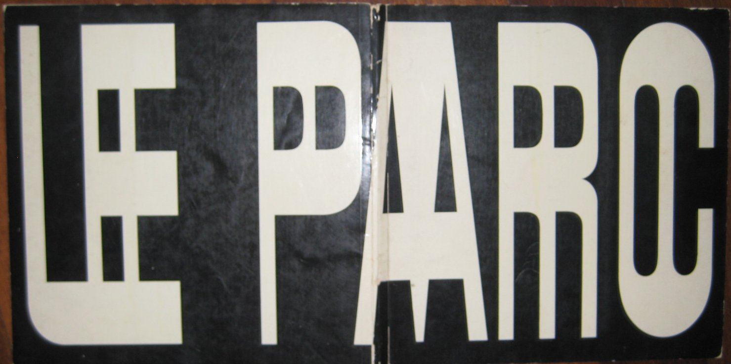 Cover for the 1967 Torcuato Di Tella Institute Exhibition Catalog (featuring refracted photography by Julio Le Parc), by Juan Carlos Distéfano.